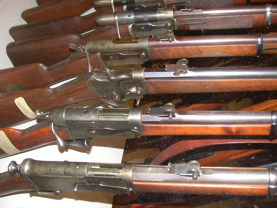 Prototypes of Vetterli Rifles